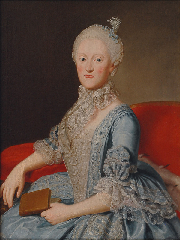 Portrait of Maria Kunigunde of Saxony (1740-1826)